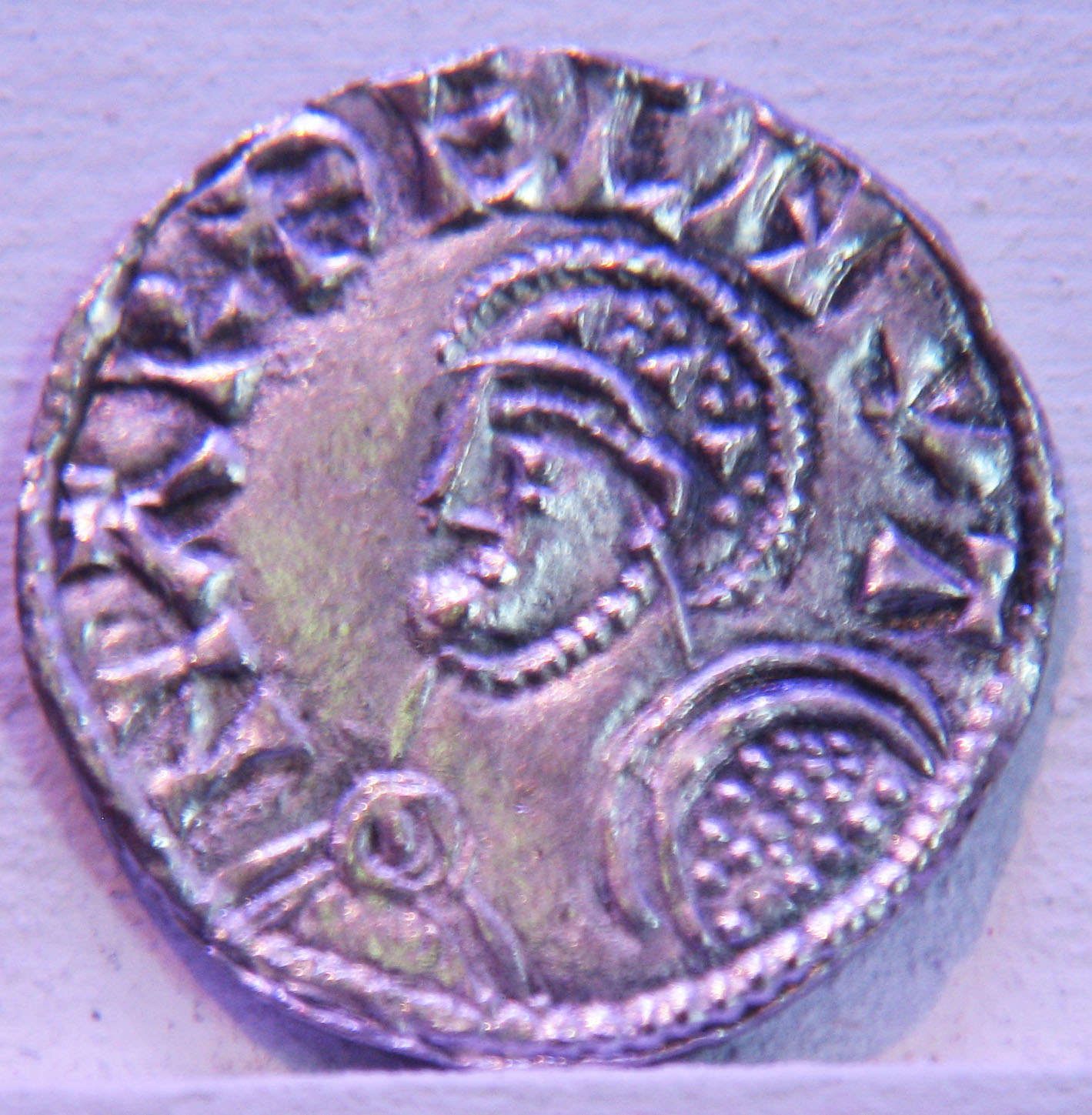 Coin depicting danish and english king Harthacnut, Hardeknut (1018-1042). Photo taken at Lund universitets historiska museum, Sweden, by the uploader 2009.